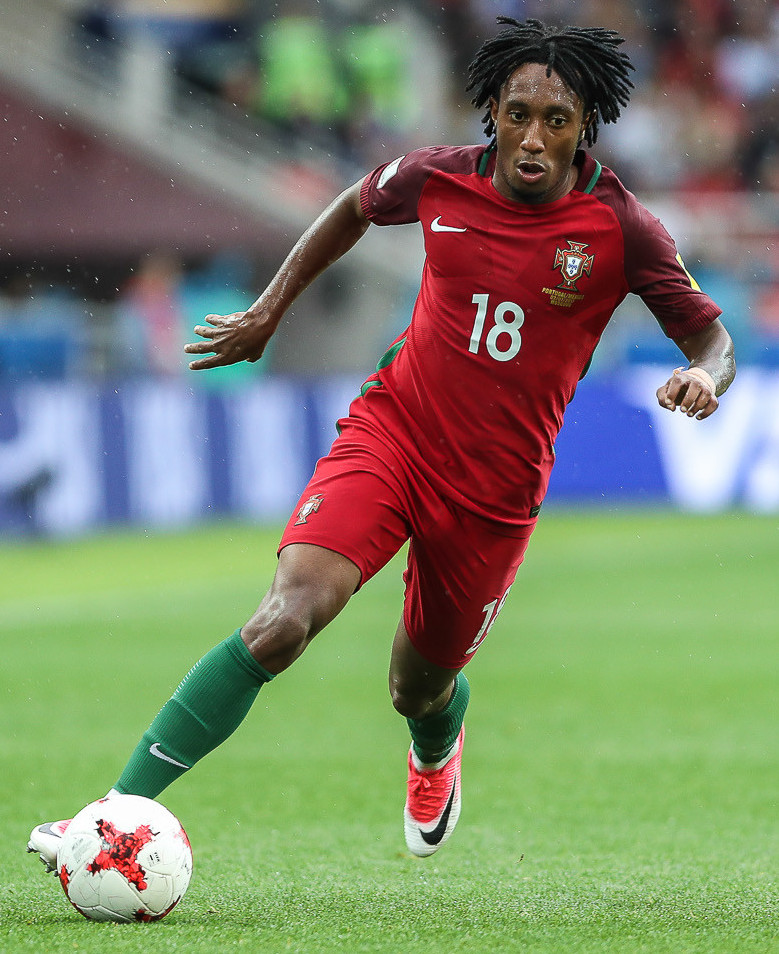 Portugal - Mexico, 2 Jul 2017